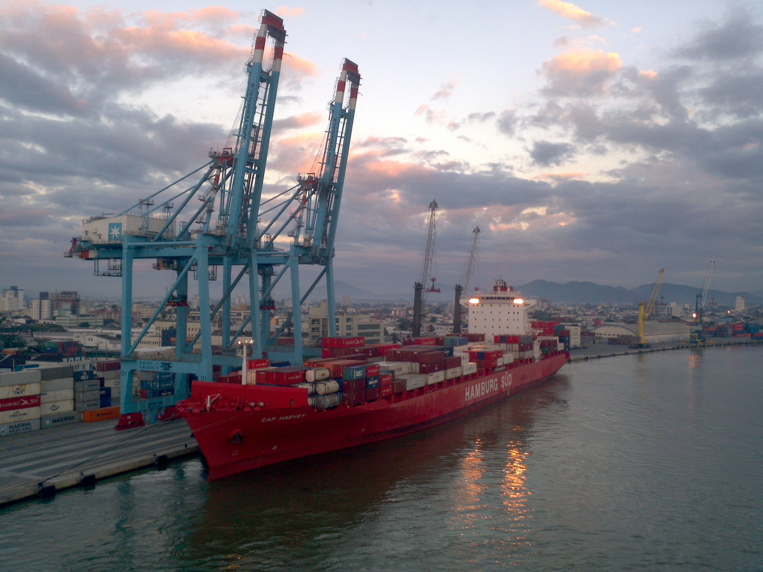 Container ship Cap Harvey, Port of Itajai, Brasil